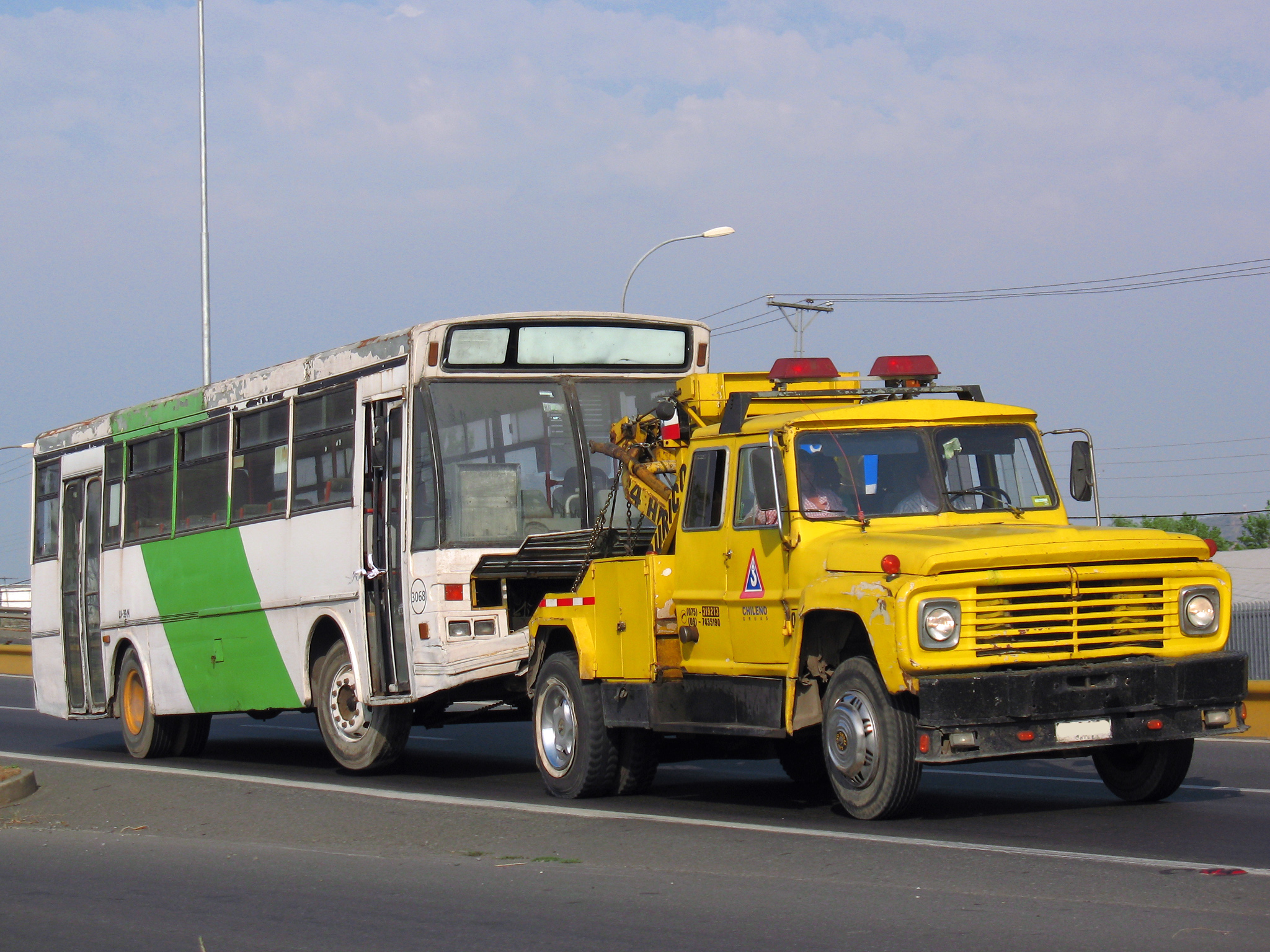 Old truck towing old bus